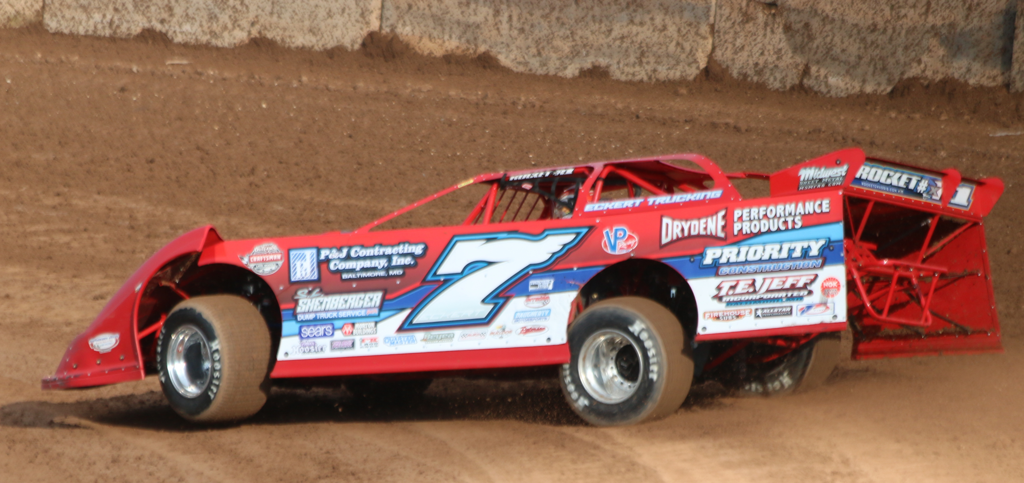 National Dirt Late Model Hall of Fame driver Rick Eckert racing with the World of Outlaws Late Model Dirt Series race at Plymouth, Wisconsin (Sheboygan County Fairgrounds).